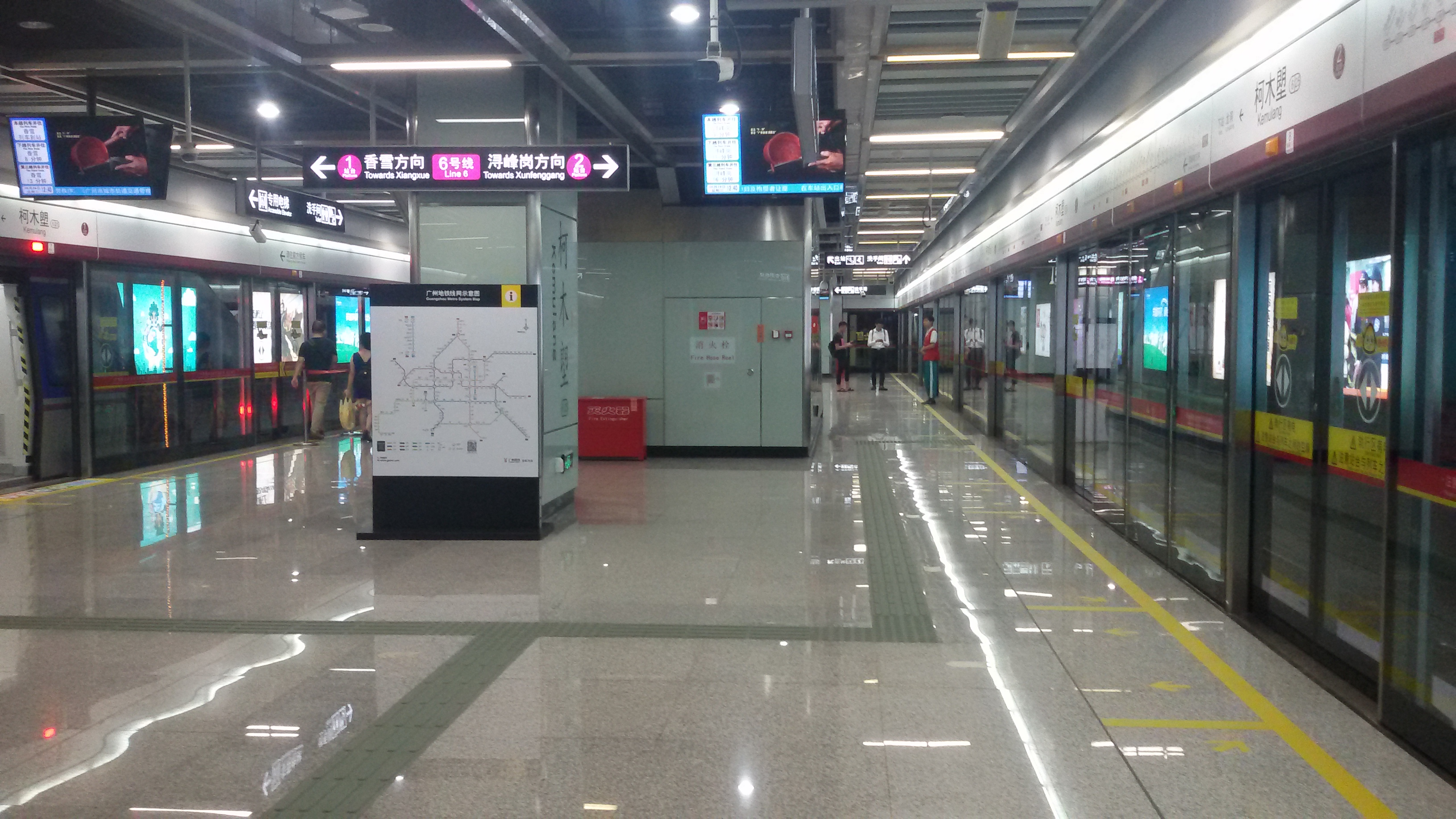 粵語: 廣州地鐵，柯木塱站嘅月台。